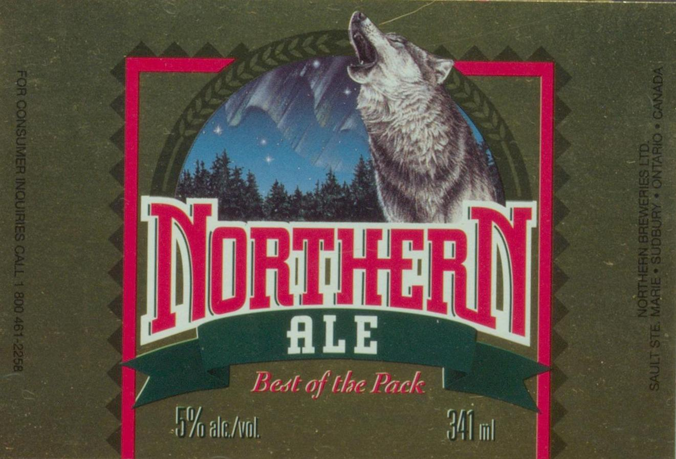 Creator: Northern Breweries Ltd. Title: Northern Ale Date: [c.1979-] Extent: 1 label: printed ; (7.5x11cm) Notes: From a collection of beer labels, stationery and Canadian breweriana donated by Lawrence C. Sherk. Format: Label Rights Info: No known restrictions on access Repository: Thomas Fisher Rare Book Library, University of Toronto, Toronto, Ontario Canada, M5S 1A5